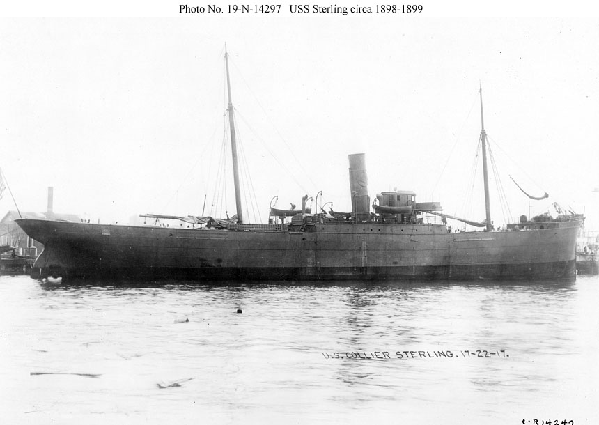 Probably photographed in late 1898 or early 1899. Her original owner's smokestack markings are still visible under the probable overall coat of gray paint.